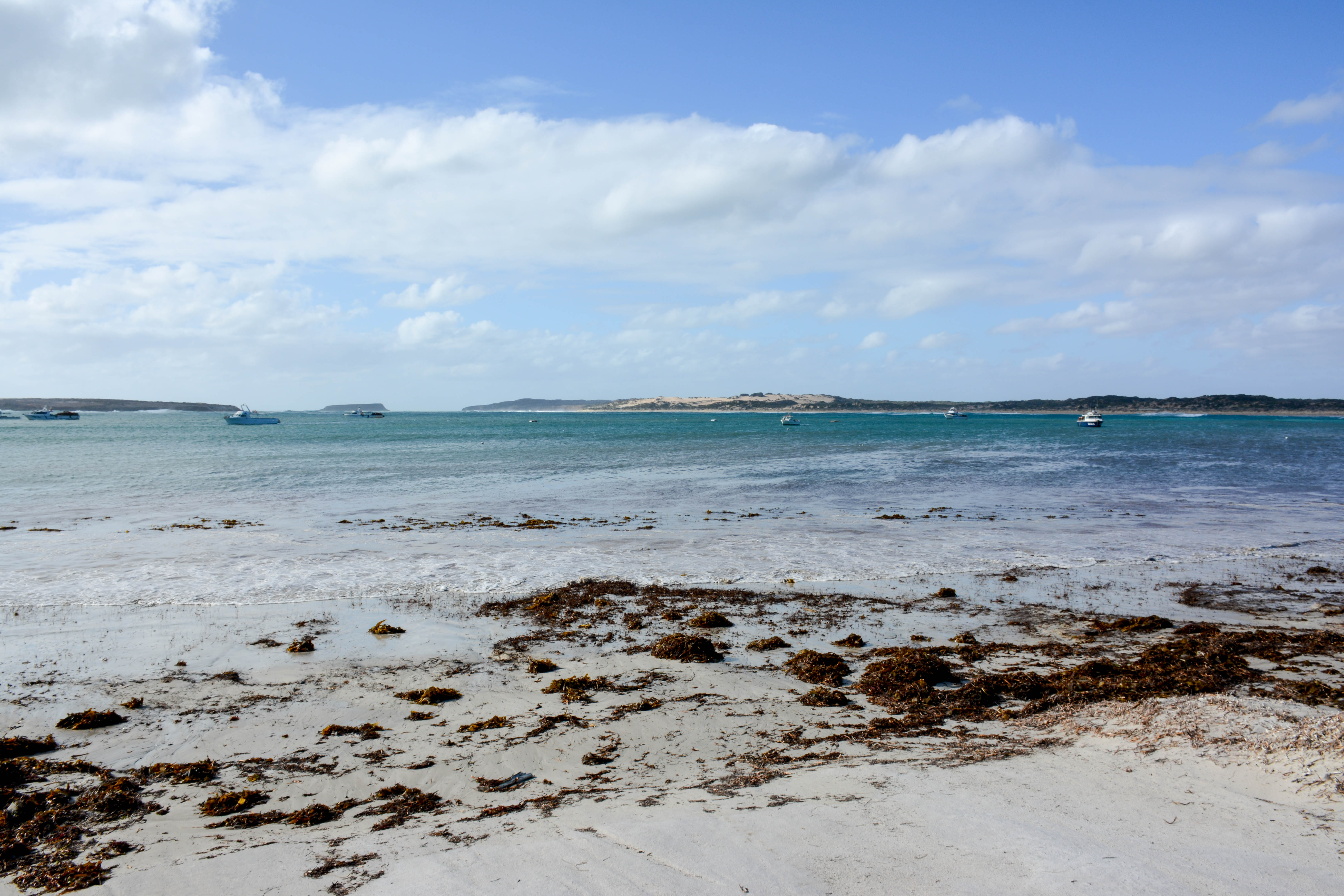 The beach at Pondalowie Bay, with several fishing boats at anchor. The bay is in the Innes National Park, Yorke Penisula, South Australia.